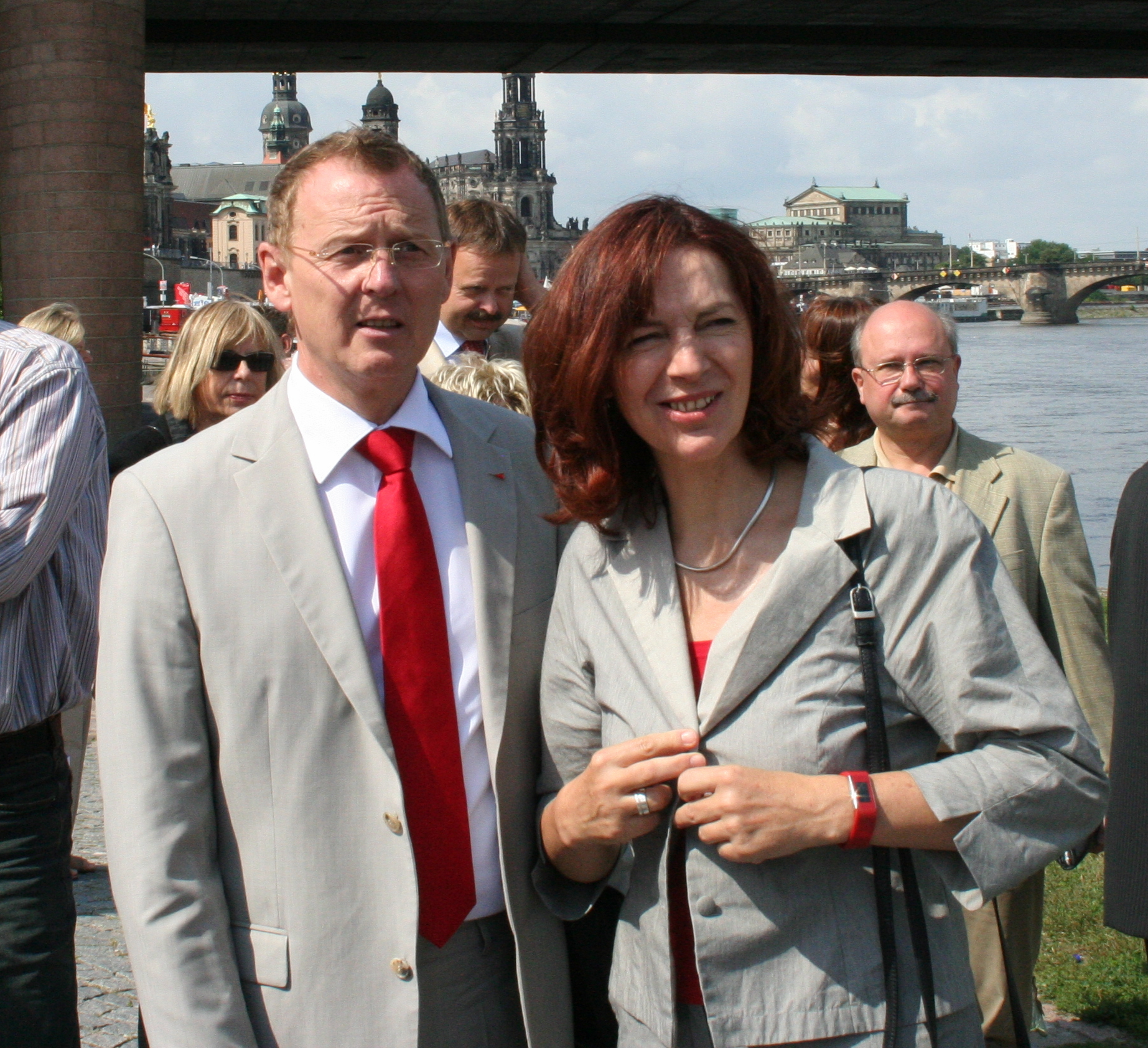 German Left Party politicians Bodo Ramelow and Kerstin Kaiser in Dresden